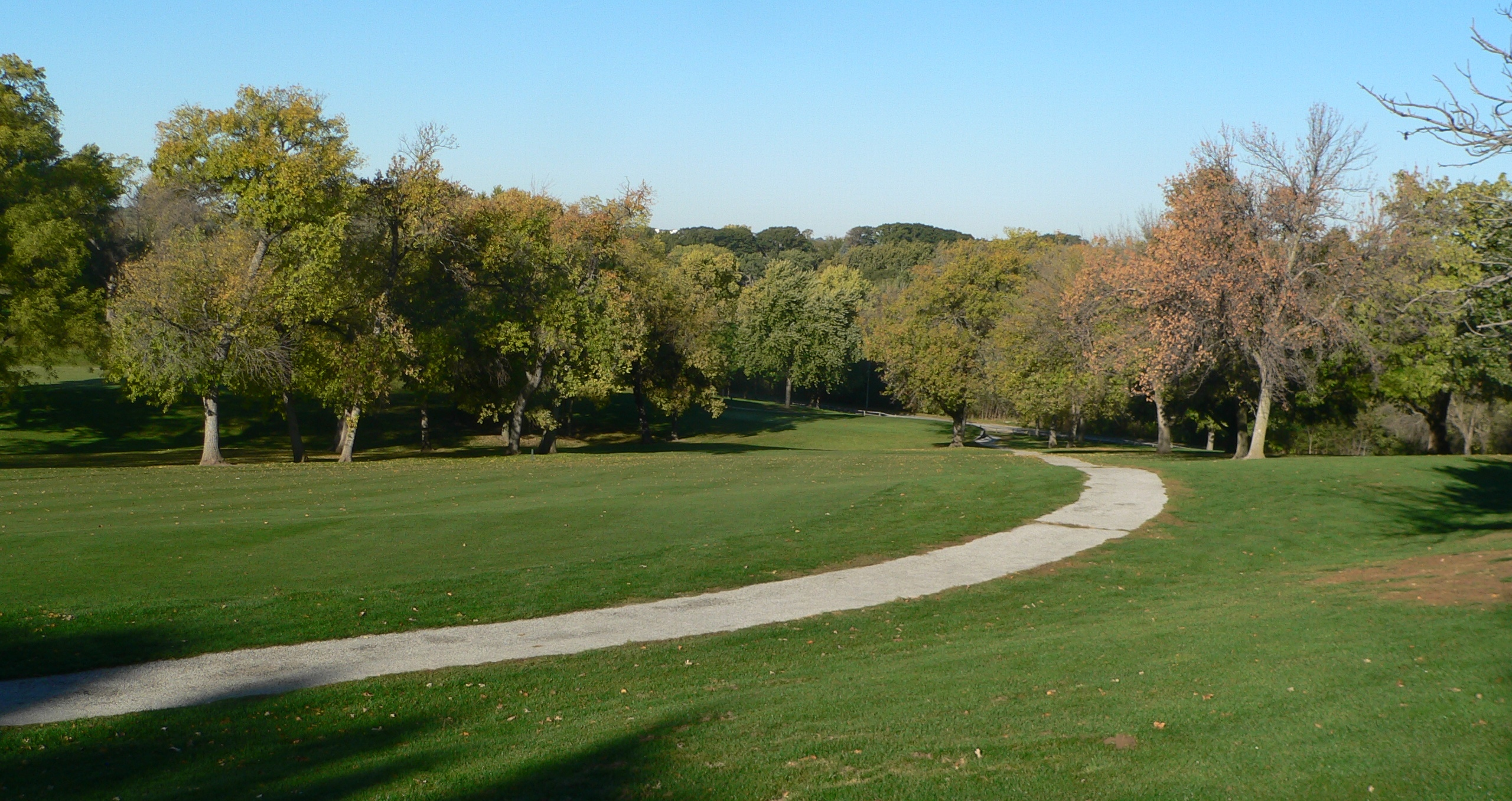 Elmwood Park golf course in Omaha, Nebraska. Camera is facing generally southwest, from a point near the 15th green.